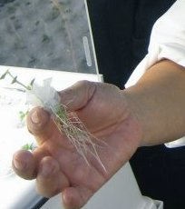 Close-up of potato explantlet after 3 days in the aeroponic system